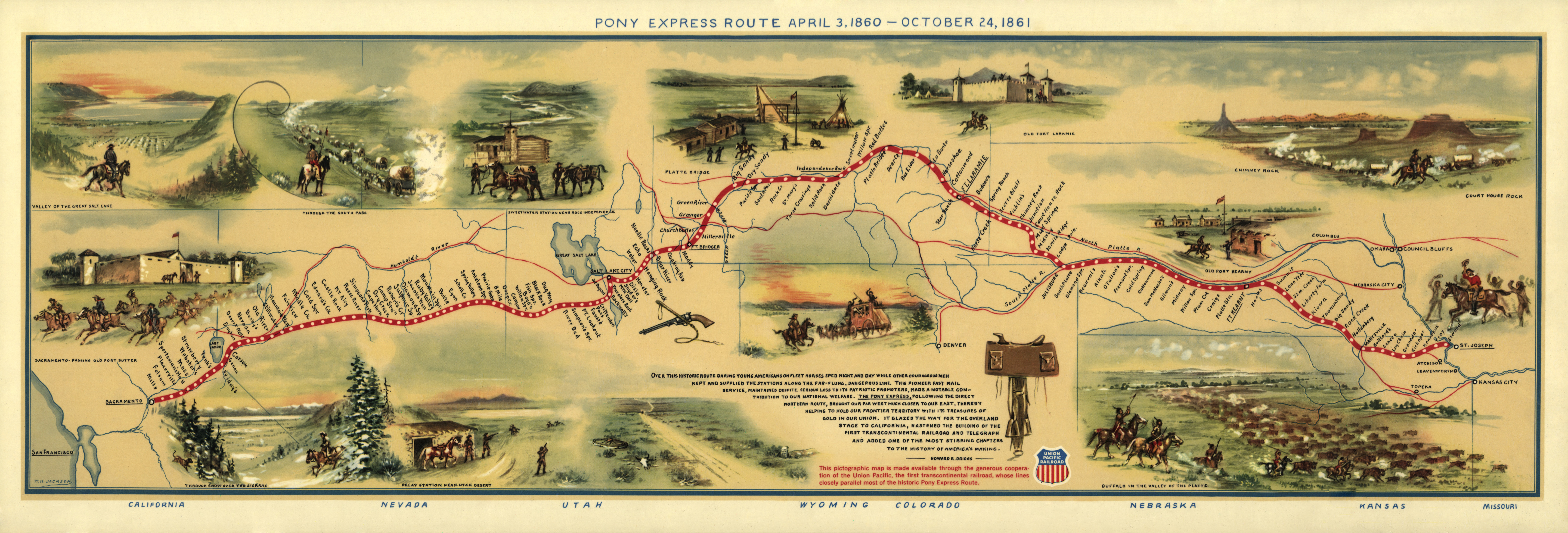 Pony Express map, by William Henry Jackson; likely from The Pony Express Goes Through (1935)